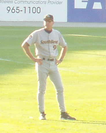 Von Hayes with the South Bend Silver Hawks during a game against the Battle Creek Yankees in Battle Creek, Michigan in 2003